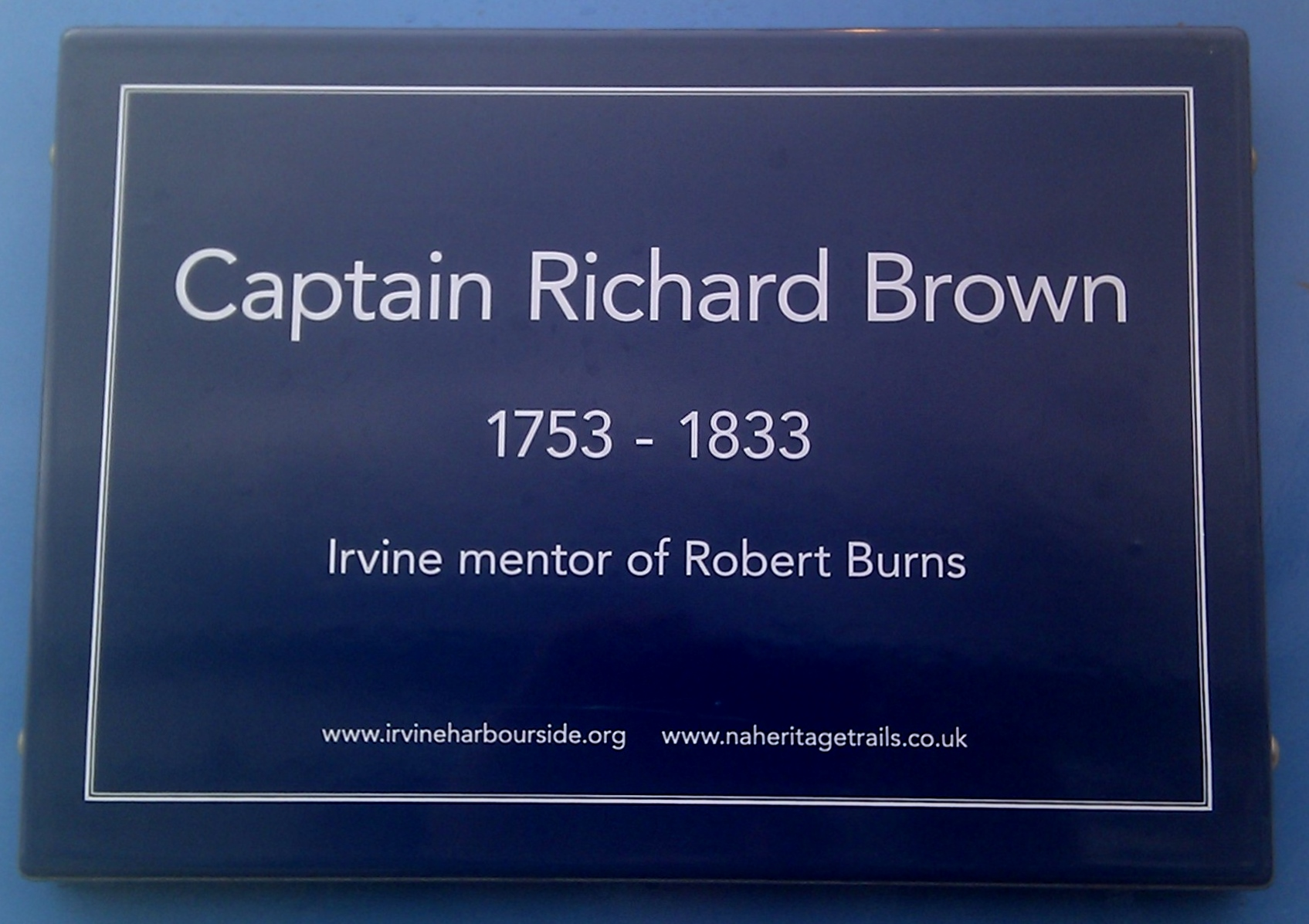 Captain Richard Brown plaque, Irvine Harbour Trail, North Ayrshire, Scotland.